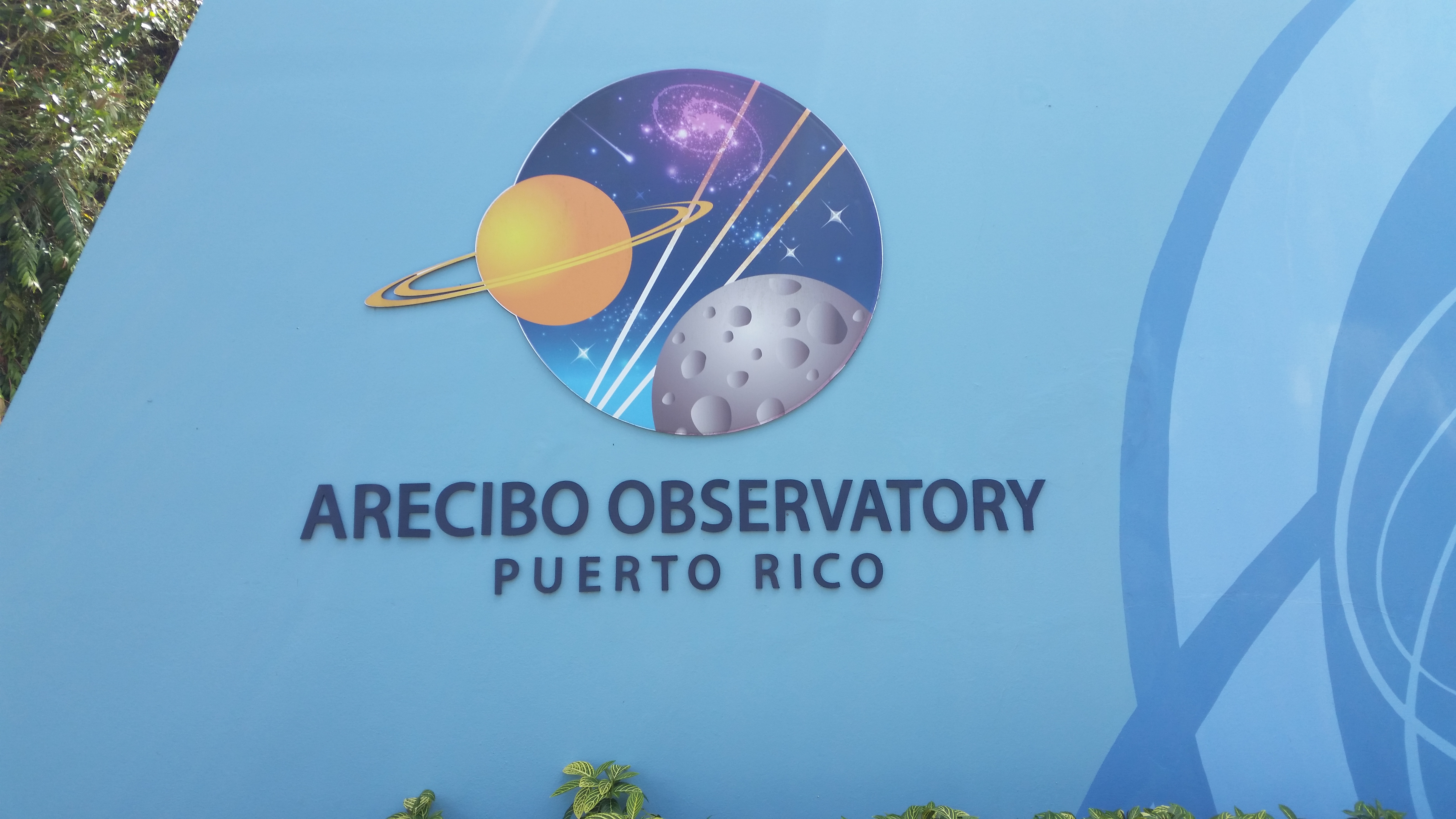 A sign at the entrance gate to the Arecibo Observartory showing a logo with planets on blue background. Arecibo, Puerto Rico